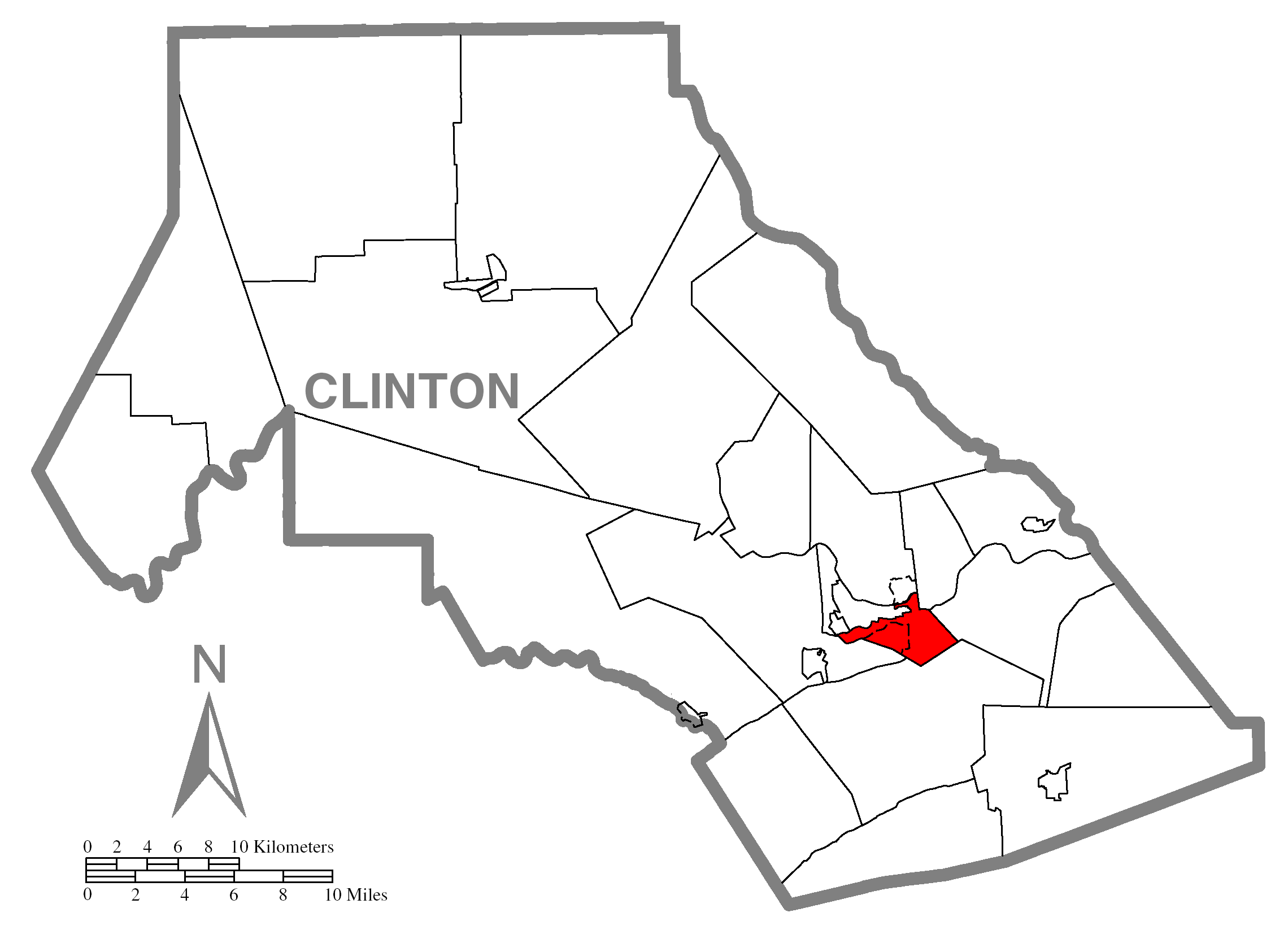 A map of Clinton County showing Castanea Township, Pennsylvania (alternate) highlighted on the map.